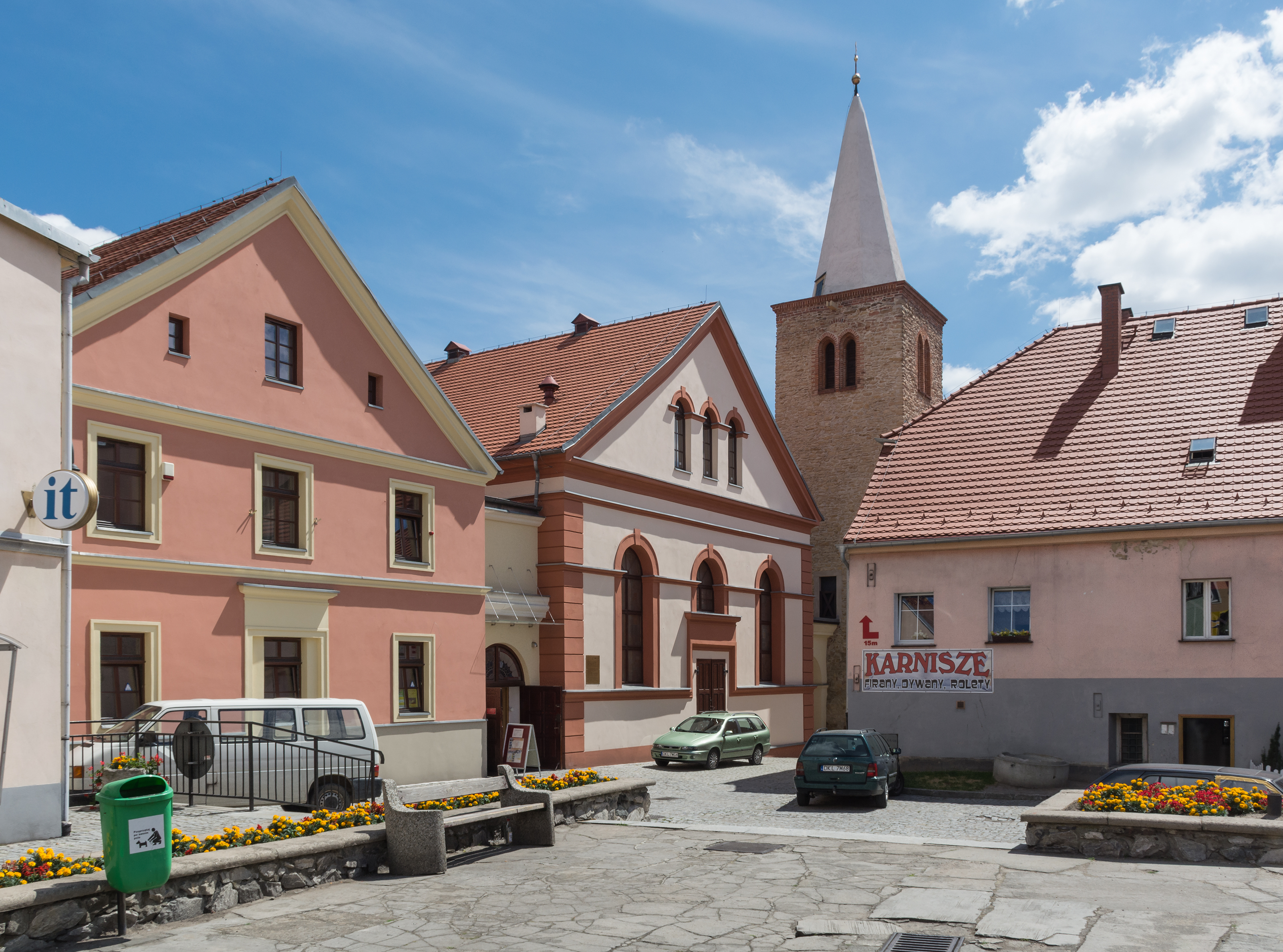 Former Evangelical church in Bystrzyca Kłodzka